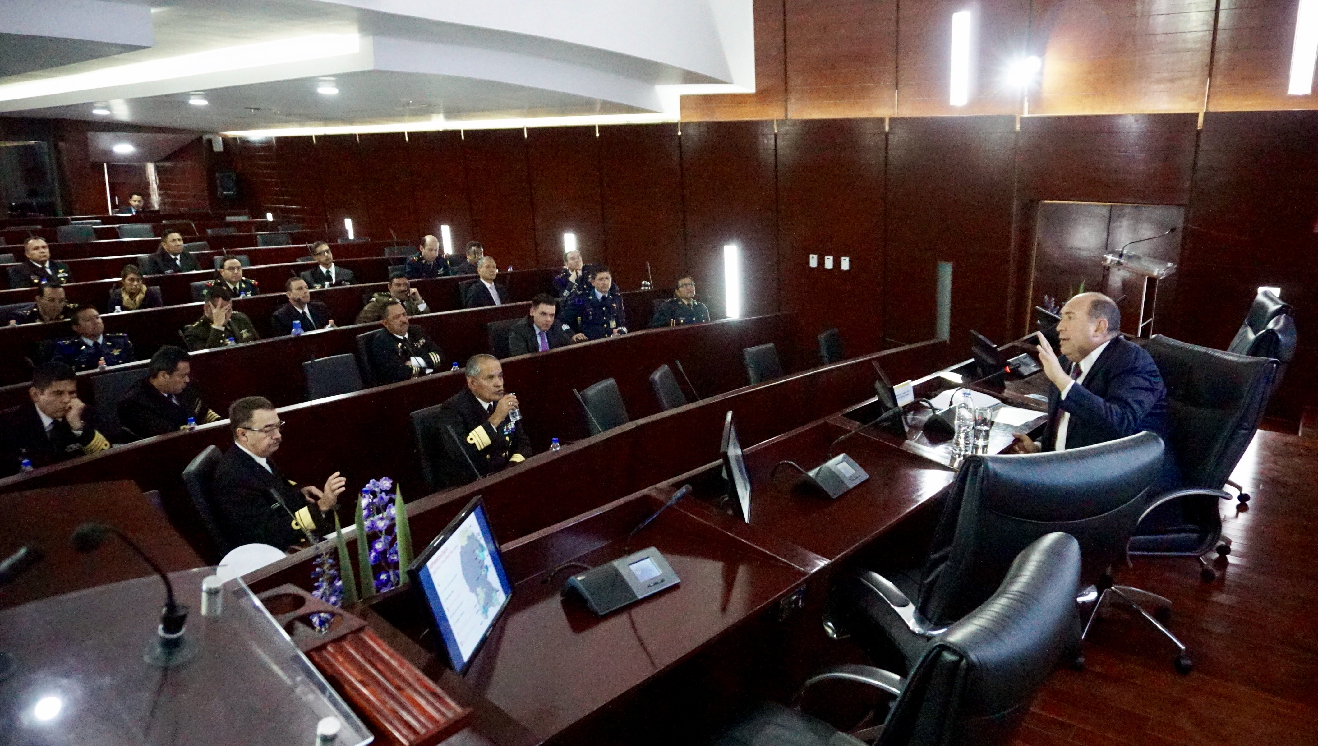 Experiencia como académico